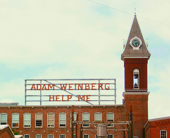 This is a photo by Bill Burns, 2012. Location is MASS MoCA, North Adams USA